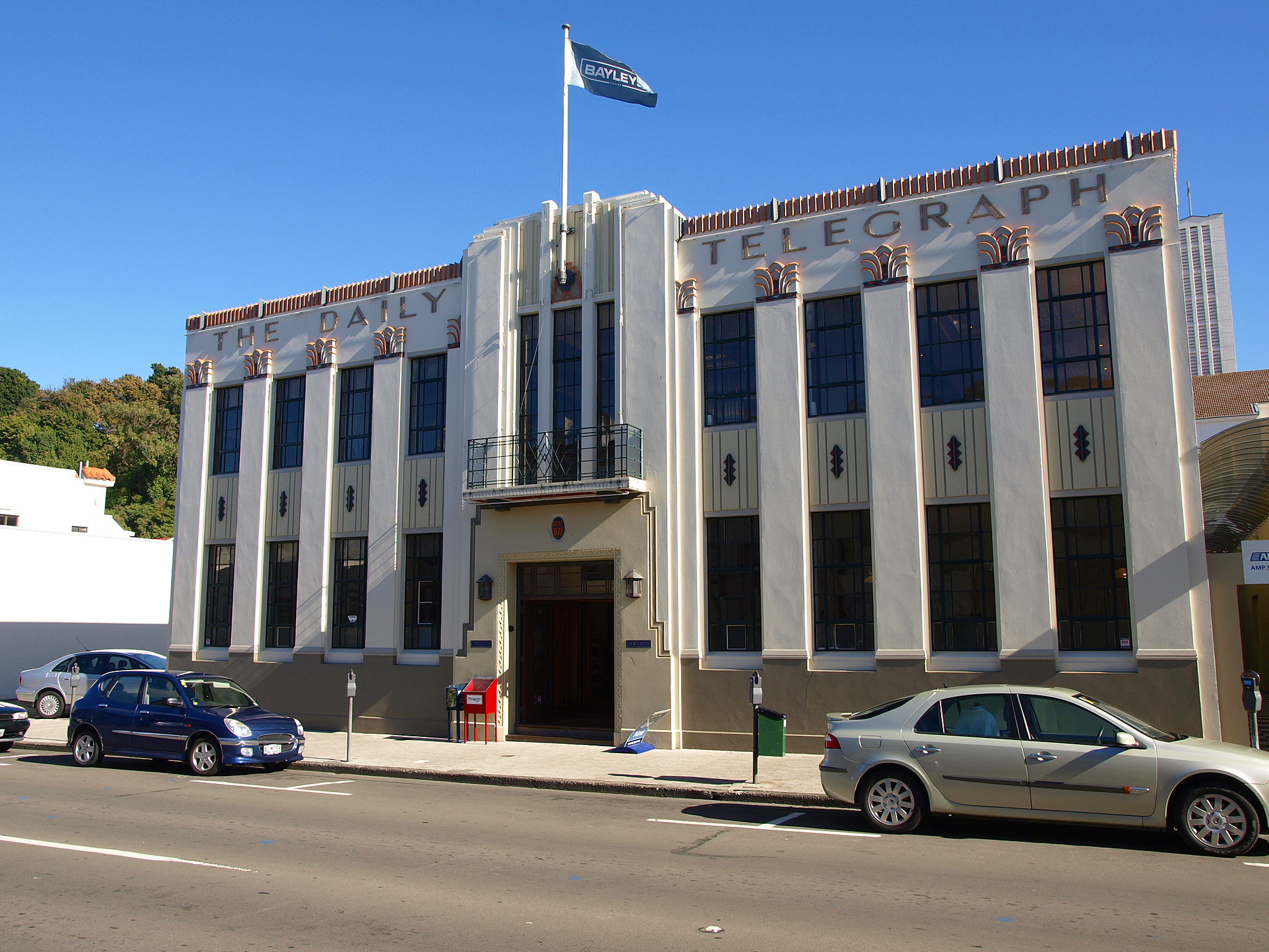 The Daily Telegraph Building, Napier, New Zealand, 1933 build (third bulding of the newspaper)